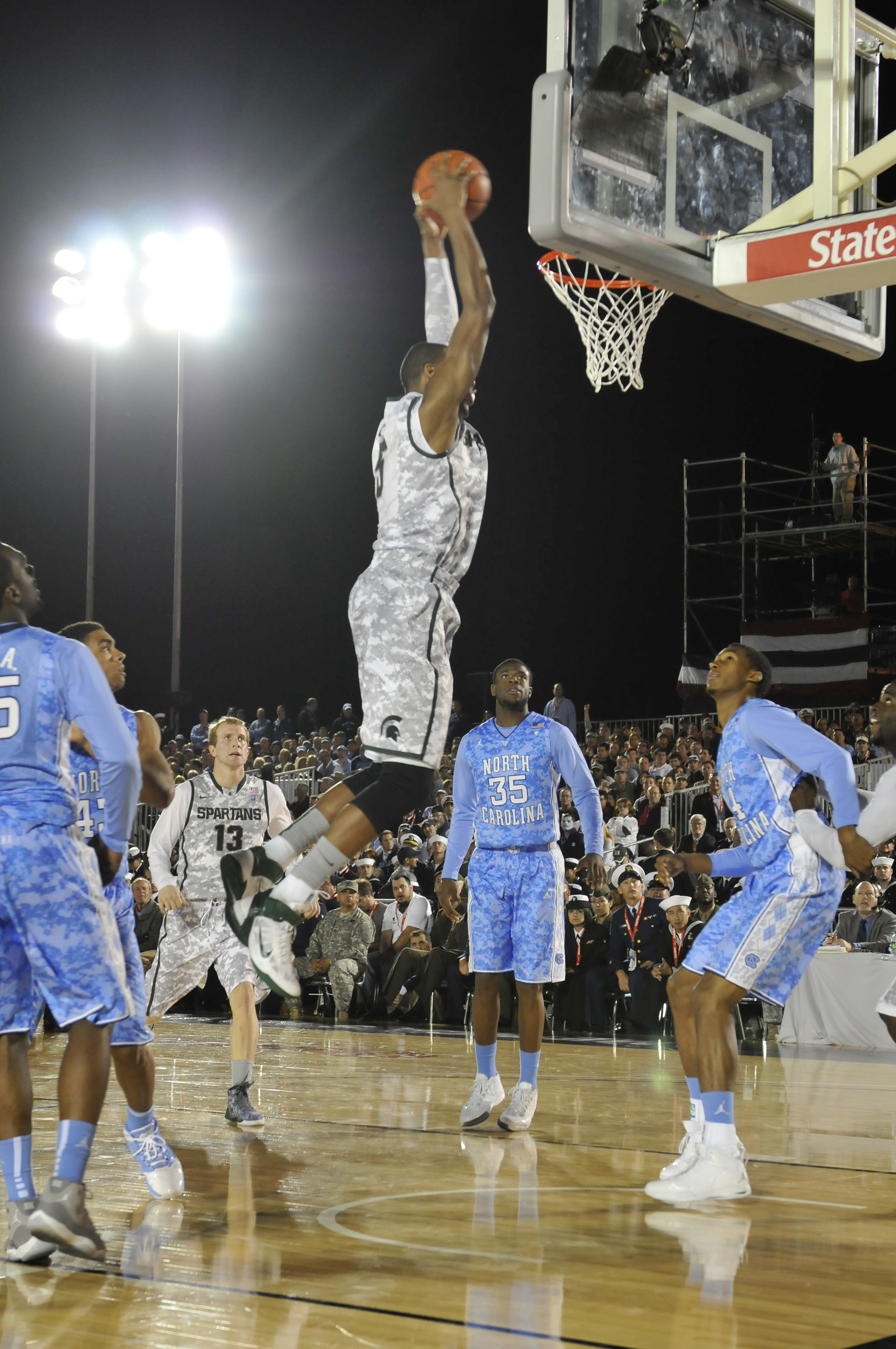 SAN DIEGO (Nov. 11, 2011) Michigan State University center Adreian Payne scores against the University of North Carolina during the Quicken Loans Carrier Classic basketball game aboard the Nimitz-class aircraft carrier USS Carl Vinson (CVN 70). The inaugural Carrier Classic is a celebration of Veterans Day. ((U.S. Navy photo by Mass Communication Specialist 3rd Class Roza Arzola/Released)